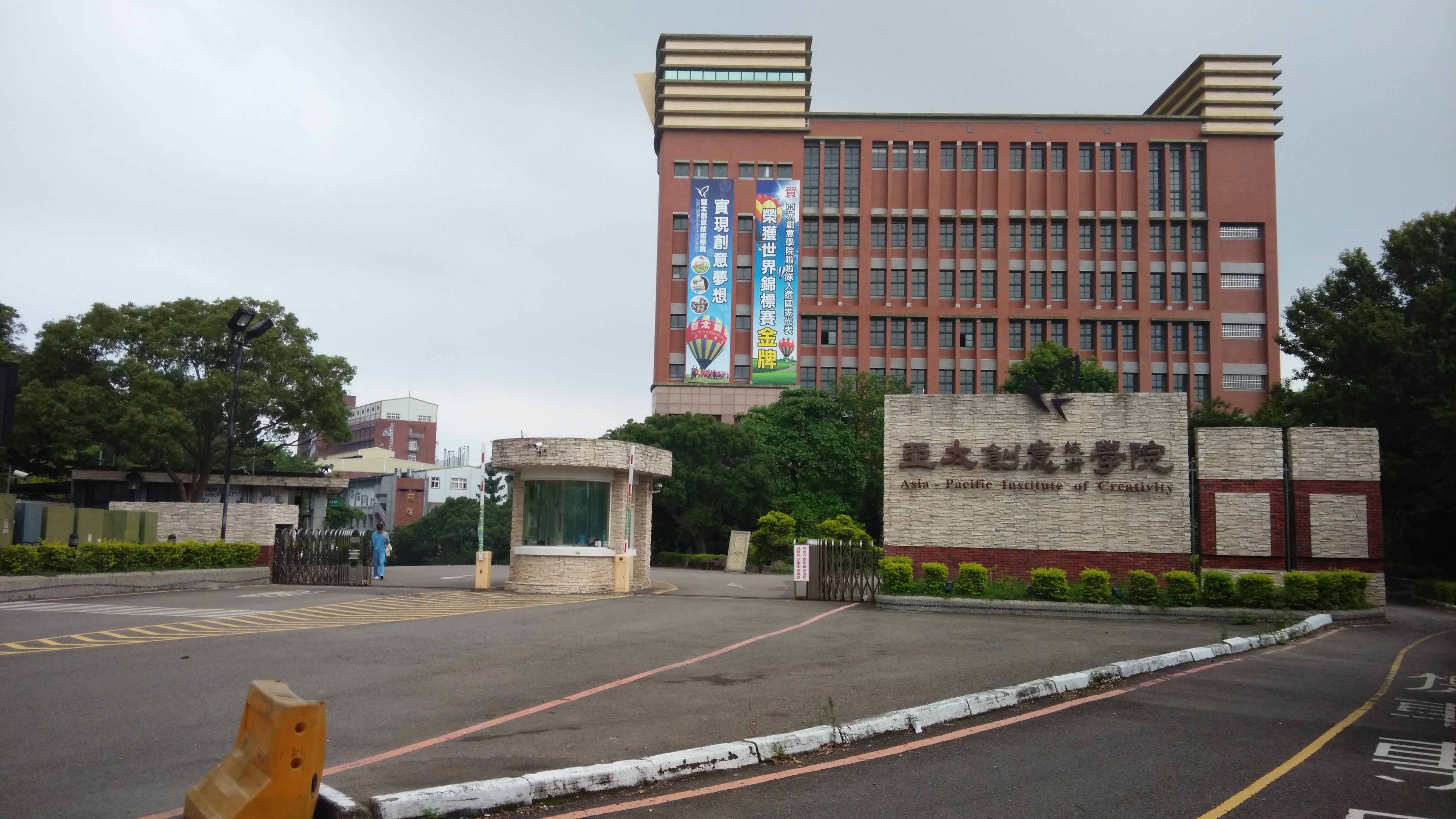 Asia-Pacific Institute of Creativity中文（台灣）: 亞太創意技術學院正門